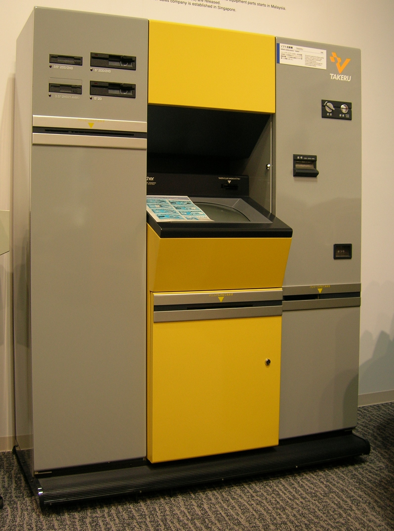 Brother Industries - Software vending machine "TAKERU" (1985 - 1997) Loc: "Brother Communication Space", Nagoya city, Aichi Prefecture, Japan. ソフトベンダーTAKERU 撮影場所 愛知県名古屋市・ブラザーコミュニケーションスペース